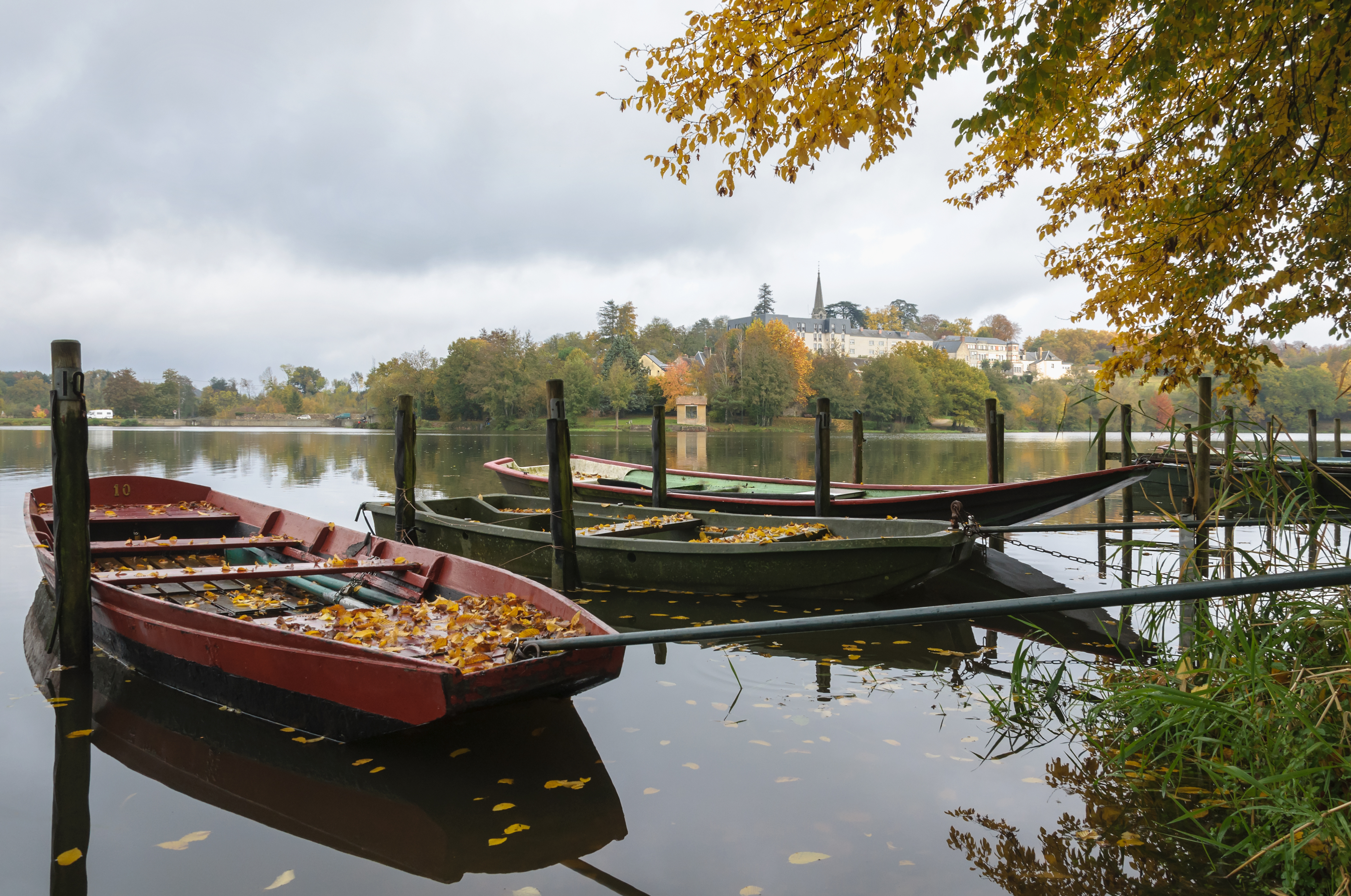 Flat-bottomed rowboats on the Val Joyeux pond (so-called "lake") in Château-la-Vallière, Indre-et-Loire, France.